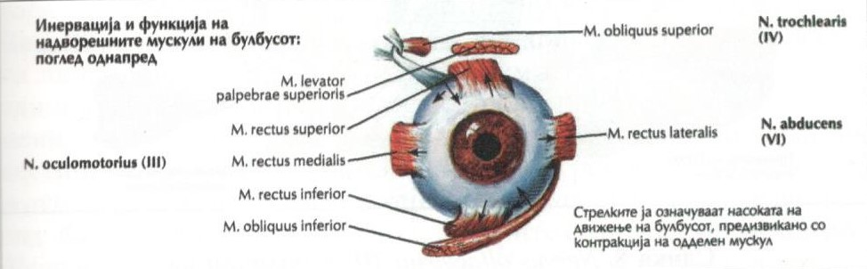 Muscles of the eye